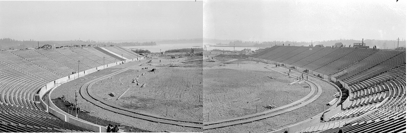 Husky Stadium (University of Washington, Seattle) under construction in 1920. Union Bay in background.